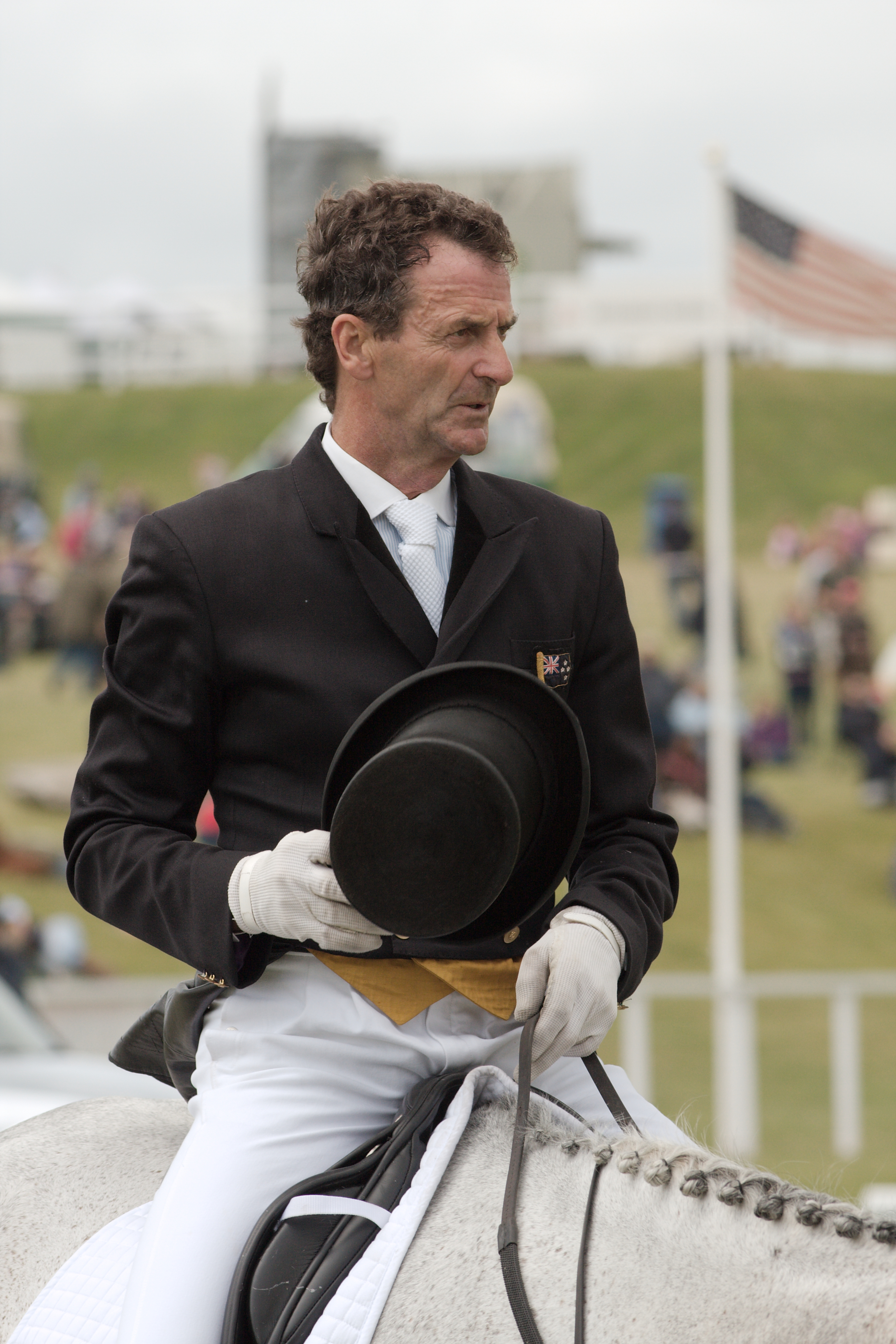 Mark Todd salutes the crowd, having completed his dressage test on Gandalf during the CIC*** event at Barbury International Horse Trials.